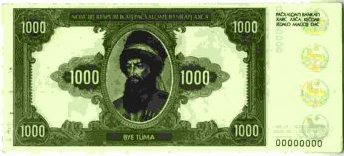 Chechen currency 1000 naxar